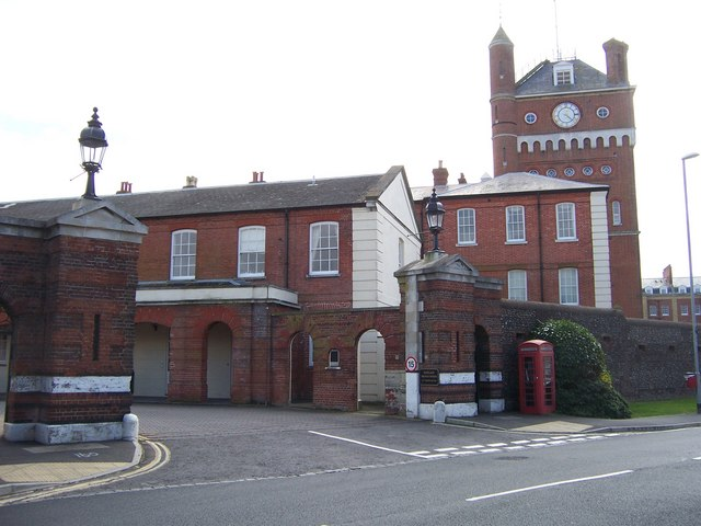 Main Gate, Eastney Barracks-Portsmouth This was the Main gate of Eastney Barracks. It was the home of the Royal Marines for many years. The whole site is now private housing.